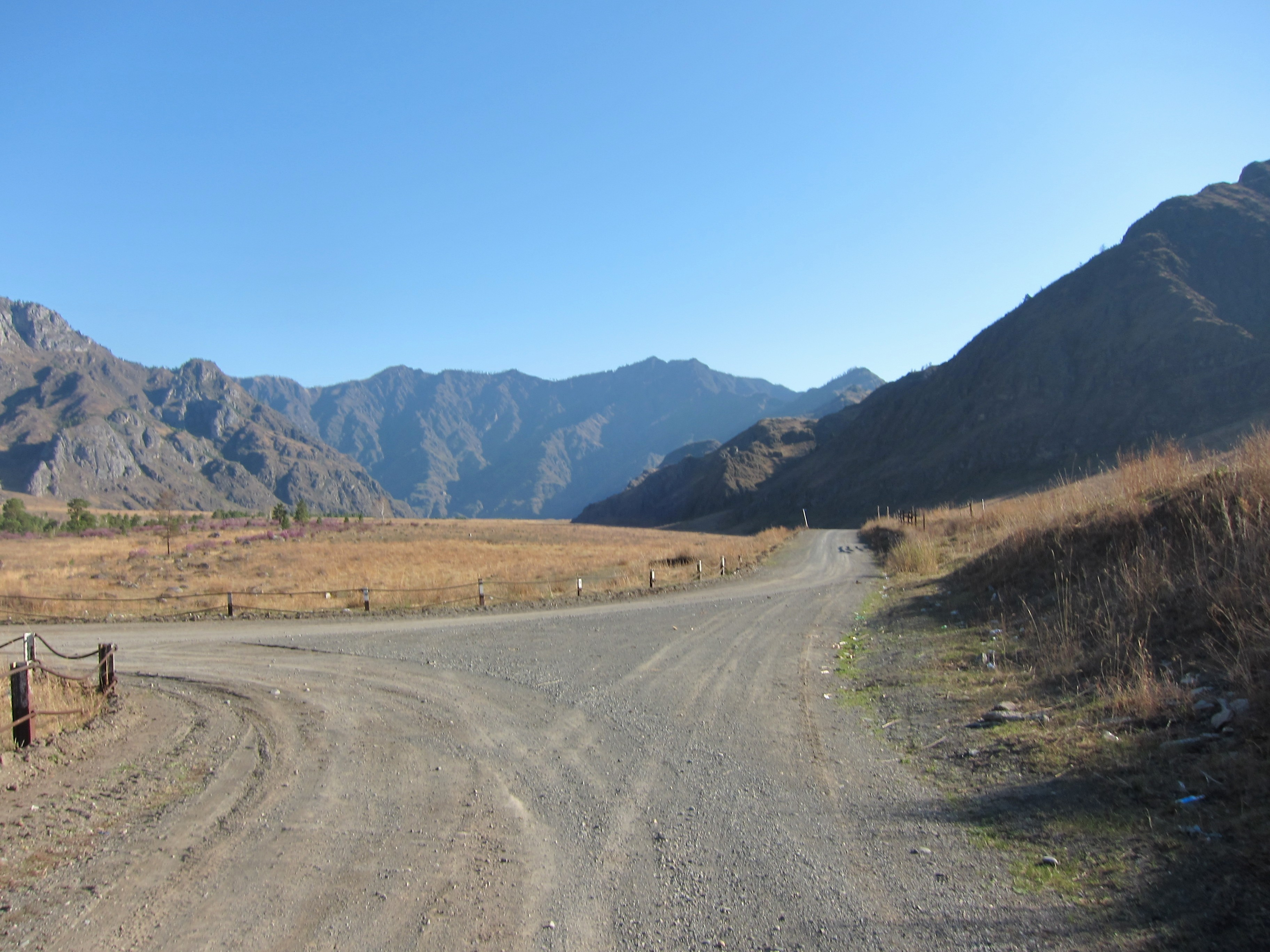 The road from Ust-Sema to Kuyus (Chemalsky Trakt) near the Oroktoy Bridge